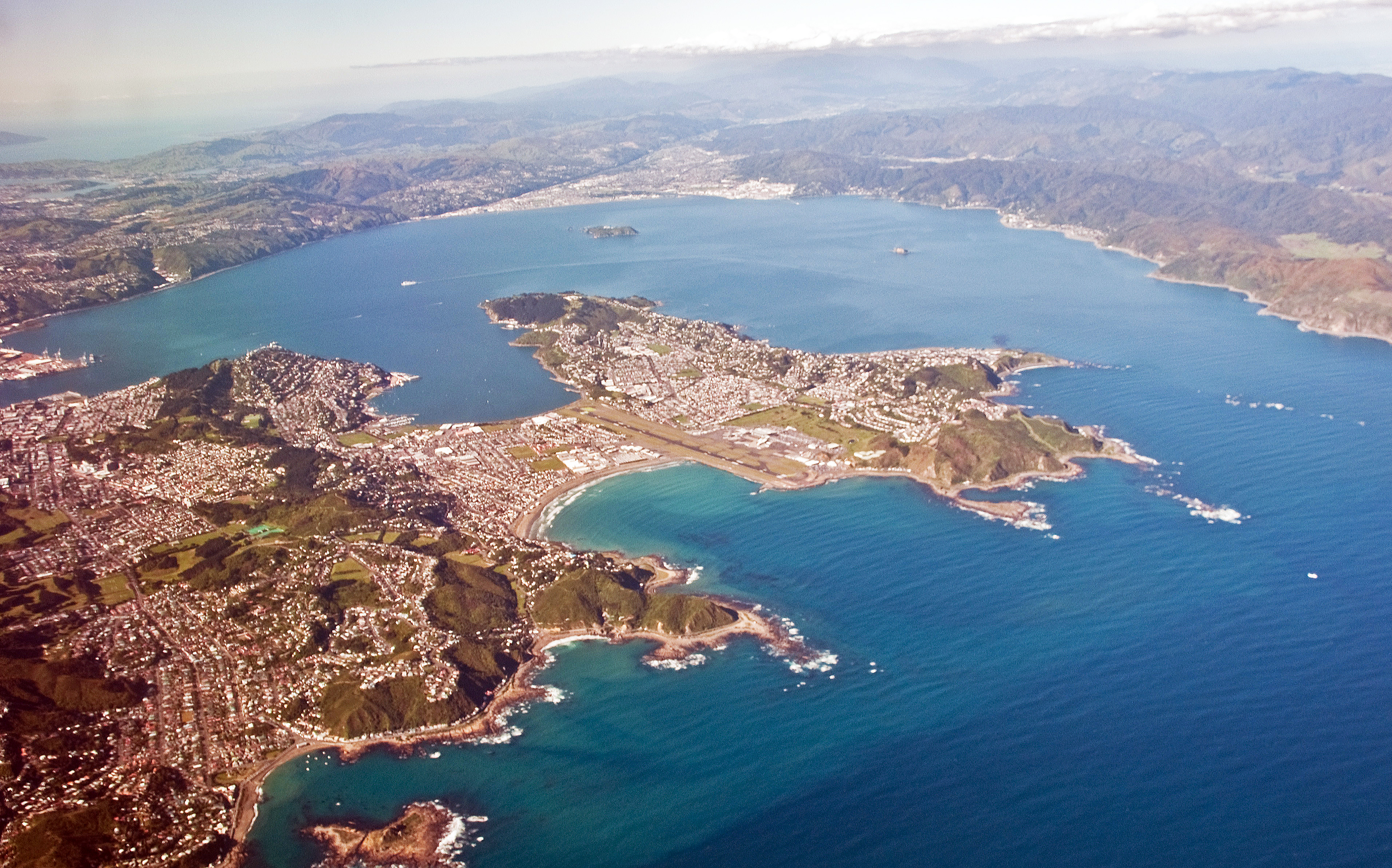 Wellington Harbour, New Zealand, 6 November 2009